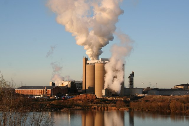 Newark Sugar Factory Low winter sun and Newark Sugar Factory